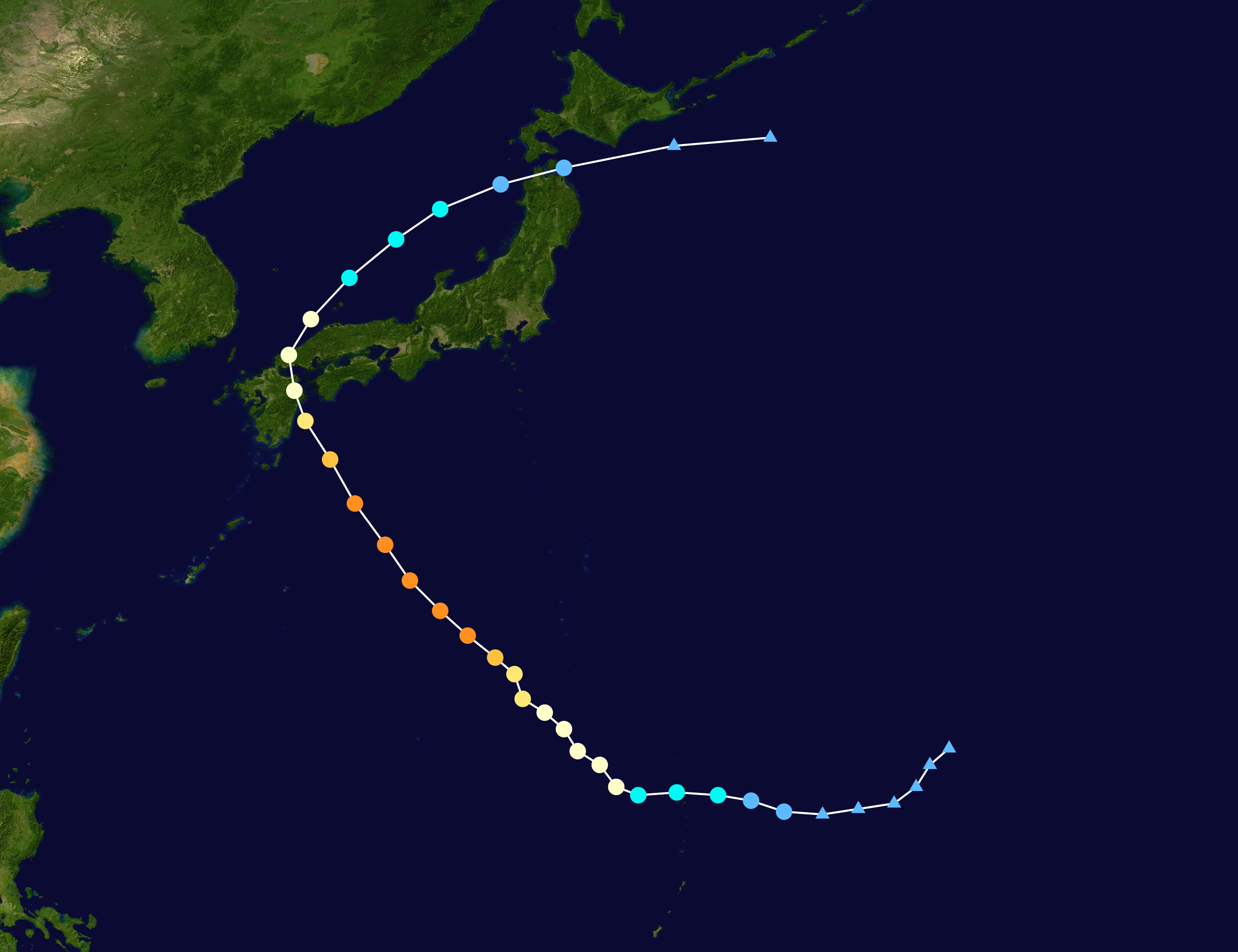 Track map of Typhoon Usagi of the 2007 Pacific typhoon season. The points show the location of the storm at 6-hour intervals. The colour represents the storm's maximum sustained wind speeds as classified in the Saffir–Simpson scale (see below), and the shape of the data points represent the nature of the storm, according to the legend below. Saffir–Simpson scale Tropical depression≤38 mph≤62 km/h Category 3111–129 mph178–208 km/h Tropical storm39–73 mph63–118 km/h Category 4130–156 mph209–251 km/h Category 174–95 mph119–153 km/h Category 5≥157 mph≥252 km/h Category 296–110 mph154–177 km/h Unknown Storm type Tropical cyclone Subtropical cyclone Extratropical cyclone / Remnant low / Tropical disturbance / Monsoon depression